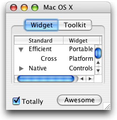 SWT widgets on Mac OS